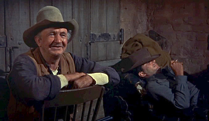 Cropped screenshot of Walter Brennan from the trailer for the film Rio Bravo